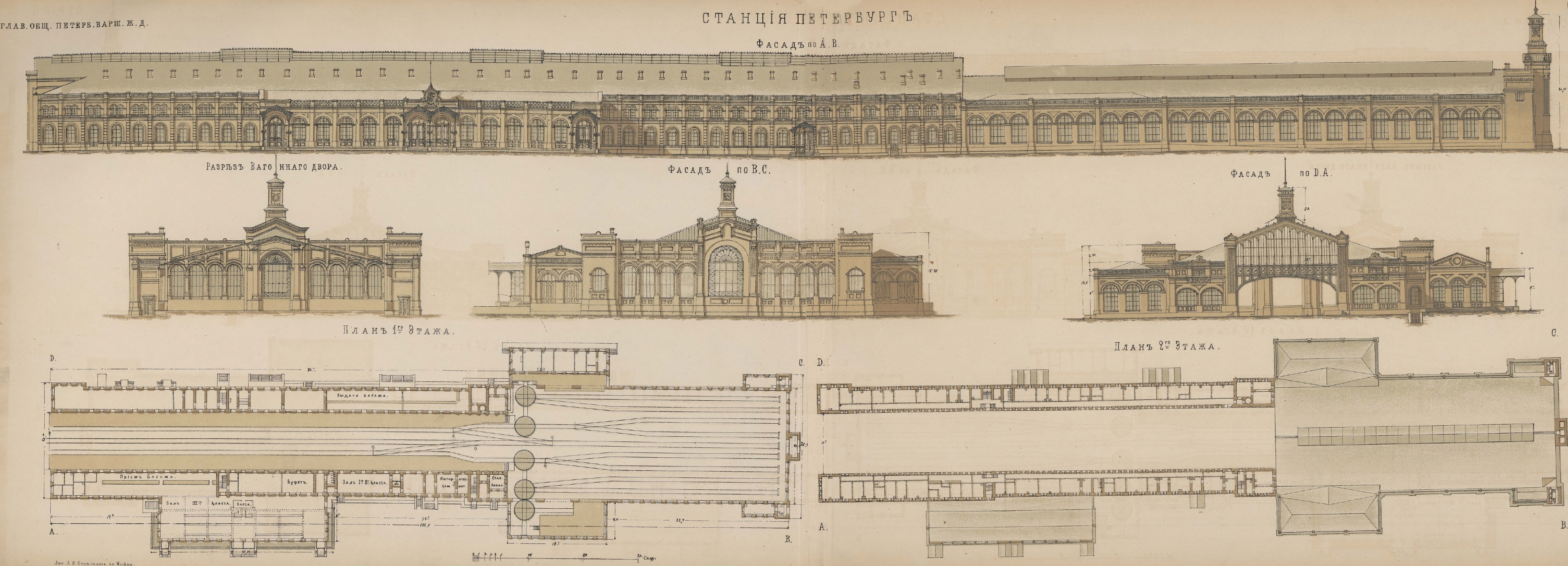 Varshavsky Rail Terminal. Saint Petersburg